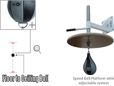 Speed ball and ceiling ball comparison Original text: A speed ball system from and a floor to ceiling bag system with cable attachment system. This image is comparing both types of boxing apparatus to be used freely on wikipedia and elsewhere providing credit goes back to original "speed ball and ceiling ball comparison"